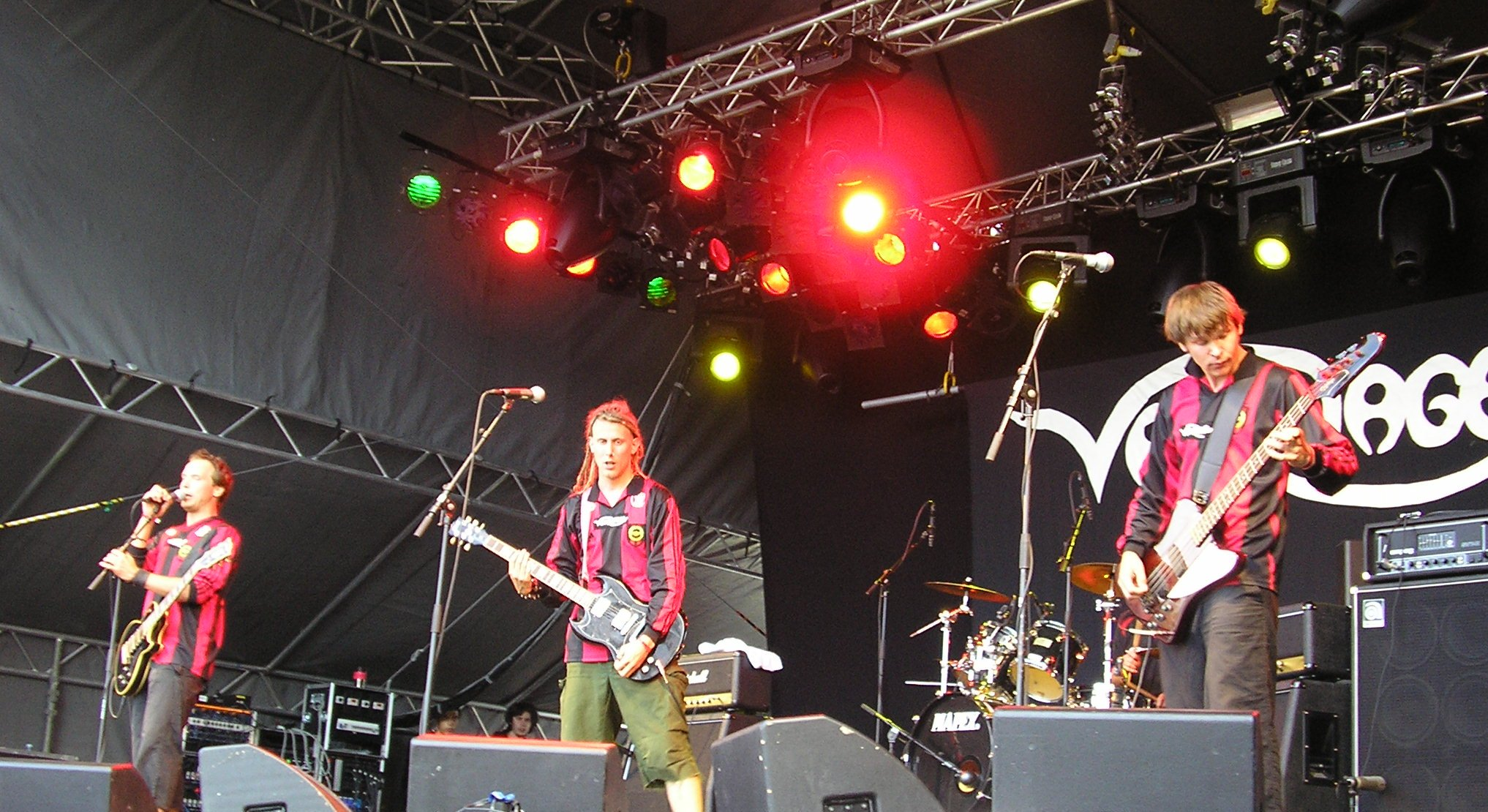 Varnagel playing at Augustibuller 2007.